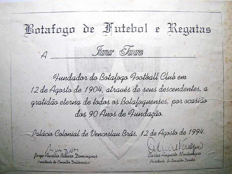 Botafogo FR Fundation Certificate Itamar Tavares